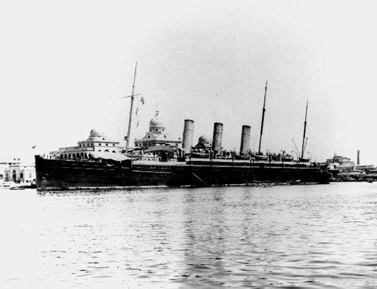 Rapido (Spanish Auxiliary Cruiser, 1889-1907) At Port Said, Egypt, 26 June - 11 July 1898, while serving with Rear Admiral Manuel de la Camara's squadron, which had been sent to relieve the Philippines. This ship was the former Hamburg-Amerika Line Columbia, purchased by Spain for war service in 1898. After the Spanish- American War, she returned to Hamburg-America Line service, but became the Russian auxiliary cruiser Terek during the Russo-Japanese War.